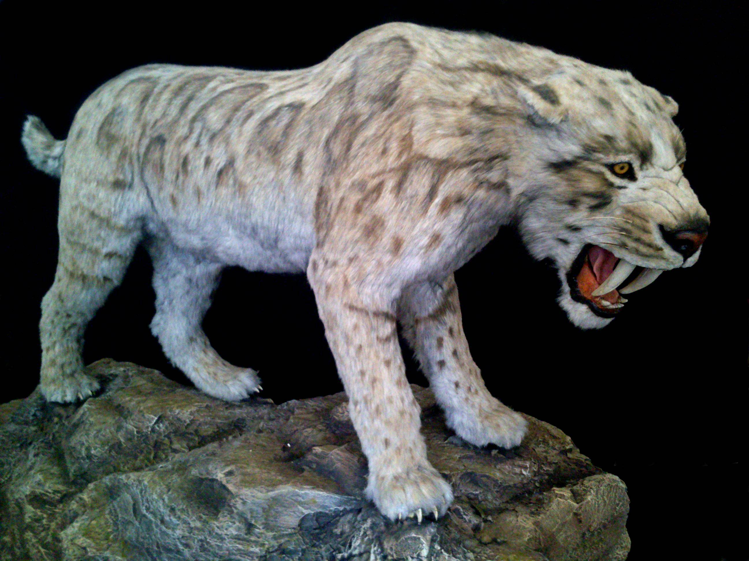 Sabertooth cat paleoart artificial recreation